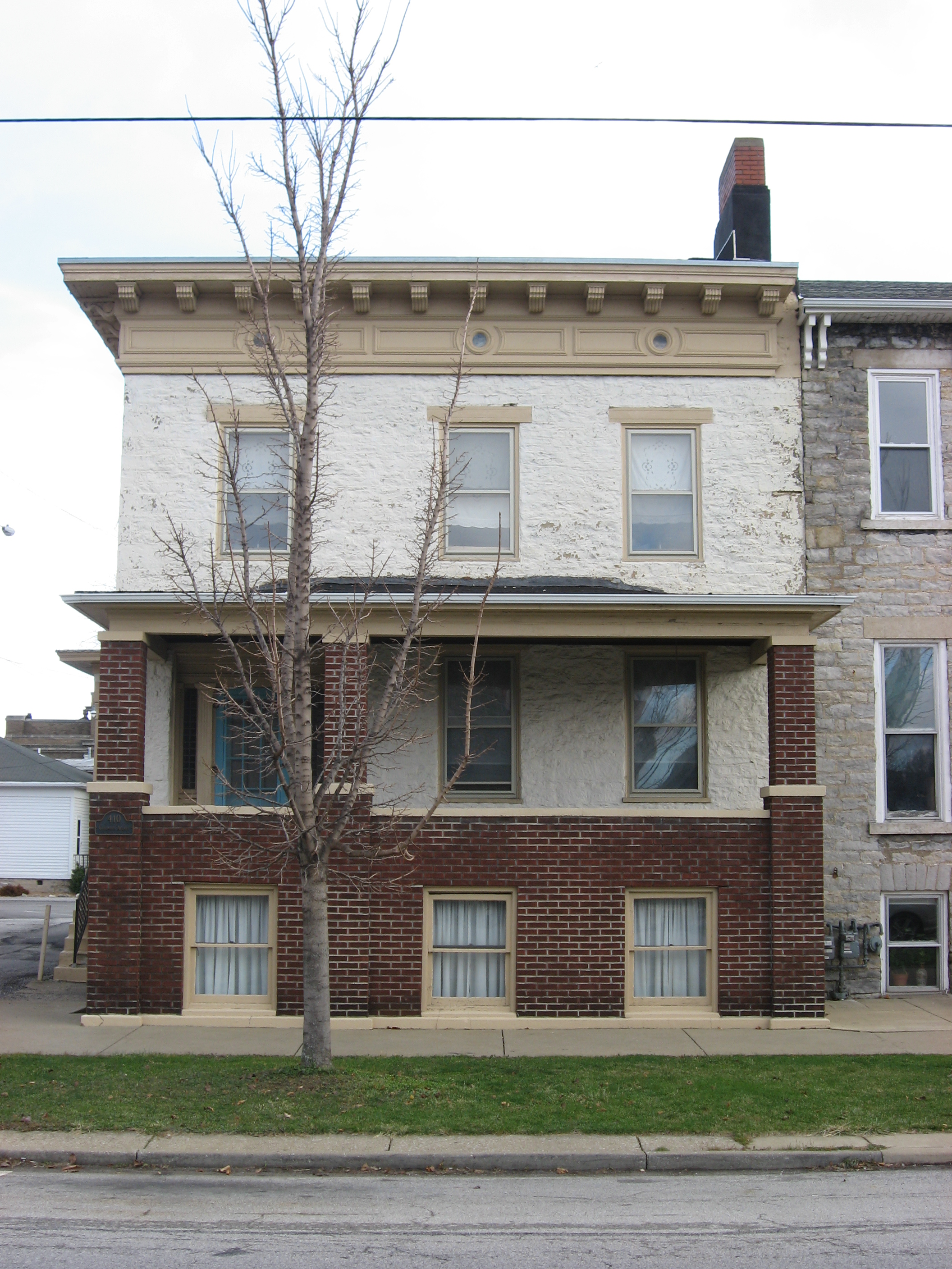 Front of the Eleutheros Cooke House, located at 410 Columbus Avenue in Sandusky, Ohio, United States. Built in 1827, it is listed on the National Register of Historic Places.